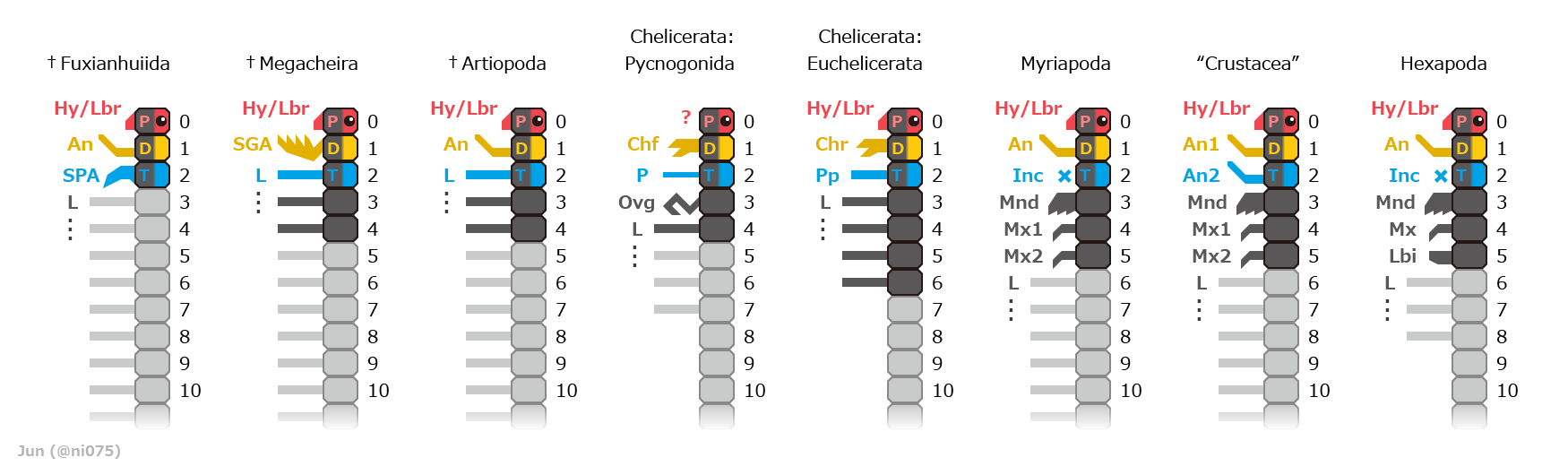 Alignment of anterior segments (somites) and appendages across various euarthropod taxa, based on the most widely accepted current (2017) observations. The eye-bearing anteriormost segment (ocular somite) labeled as '0'. The next ten segments labeled as shown numbers. The remaining segments, if exist, are not figured. Dark grey: Segments correspond to the anteriormost tagma (prosoma of Euchelicerata and head/cephalon of the remaining taxa) Red/P: Protocerebral segment/appendage Yellow/D: Deutocerebral segment/appendage Green/T: Tritocerebral segment/appendage Fuxianhuiida (fuxianhuiid): Hy: Hypostome An: Antenna SPA: Specialized post-antennal appendage L: (Arthropodized) Leg/walking leg Megacheira (megacheiran/great appendage arthropod): Hy: Hypostome SGA: Short-great appendage L: (Arthropodized) Leg/walking leg Artiopoda (Artiopodan/trilobite and related taxa): Hy: Hypostome An: Antenna L: (Arthropodized) Leg/walking leg Chelicerata: Pycnogonida (pycnogonid/sea spider): ?: (Appendage unknown) Chf: Chelifore P: Palp Ovg: Oviger L: (Arthropodized) Leg/walking leg Chelicerata: Euhelicerata (euchelicerate/merostome and arachnid): Lbr: Labrum Ch: Chelicera Pp: Pedipalp L: (Arthropodized) Leg/walking leg Myriapoda (myriapod): Lbr: Labrum An: Antenna Inc: intercalary segment Mnd: Mandible Mx1: First maxilla Mx2: Second maxilla L: (Arthropodized) Leg/walking leg "Crustacea" (crustacean): Lbr: Labrum An1: First antenna/antennula/antennule An2: Second antenna/antenna Mnd: Mandible Mx1: First maxilla/maxillula Mx2: Second maxilla/maxilla L: (Arthropodized) Leg/walking leg Hexapoda (Hexapod/entognathan and insect) Lbr: Labrum An: Antenna Inc: intercalary segment Mnd: Mandible Mx: Maxilla Lab: Labium L: (Arthropodized) Leg/walking leg Panarthropod version: Extant panarthropod version: References： Origin and evolution of the panarthropod head – A palaeobiological and developmental perspective (May 2017) Segmentation and tagmosis in Chelicerata (May 2017) 日本語